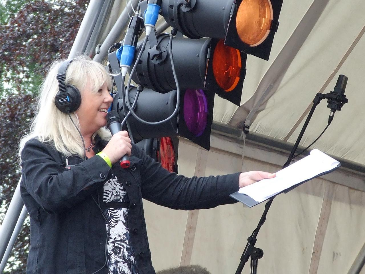 Liz Kershaw at the Godiva Festival 2007 held in the War Memorial Park, Coventry, England.